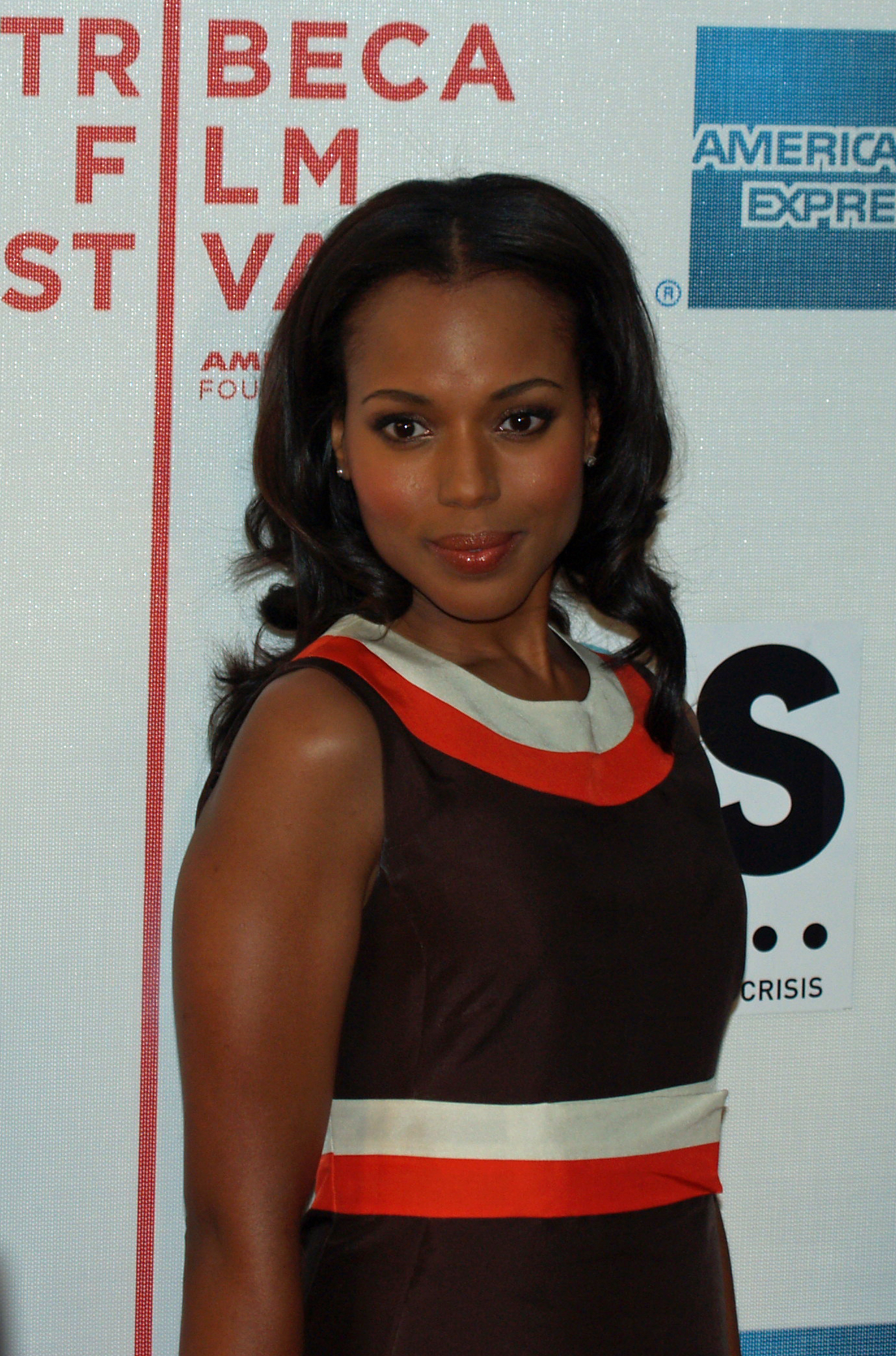 Kerry Washington